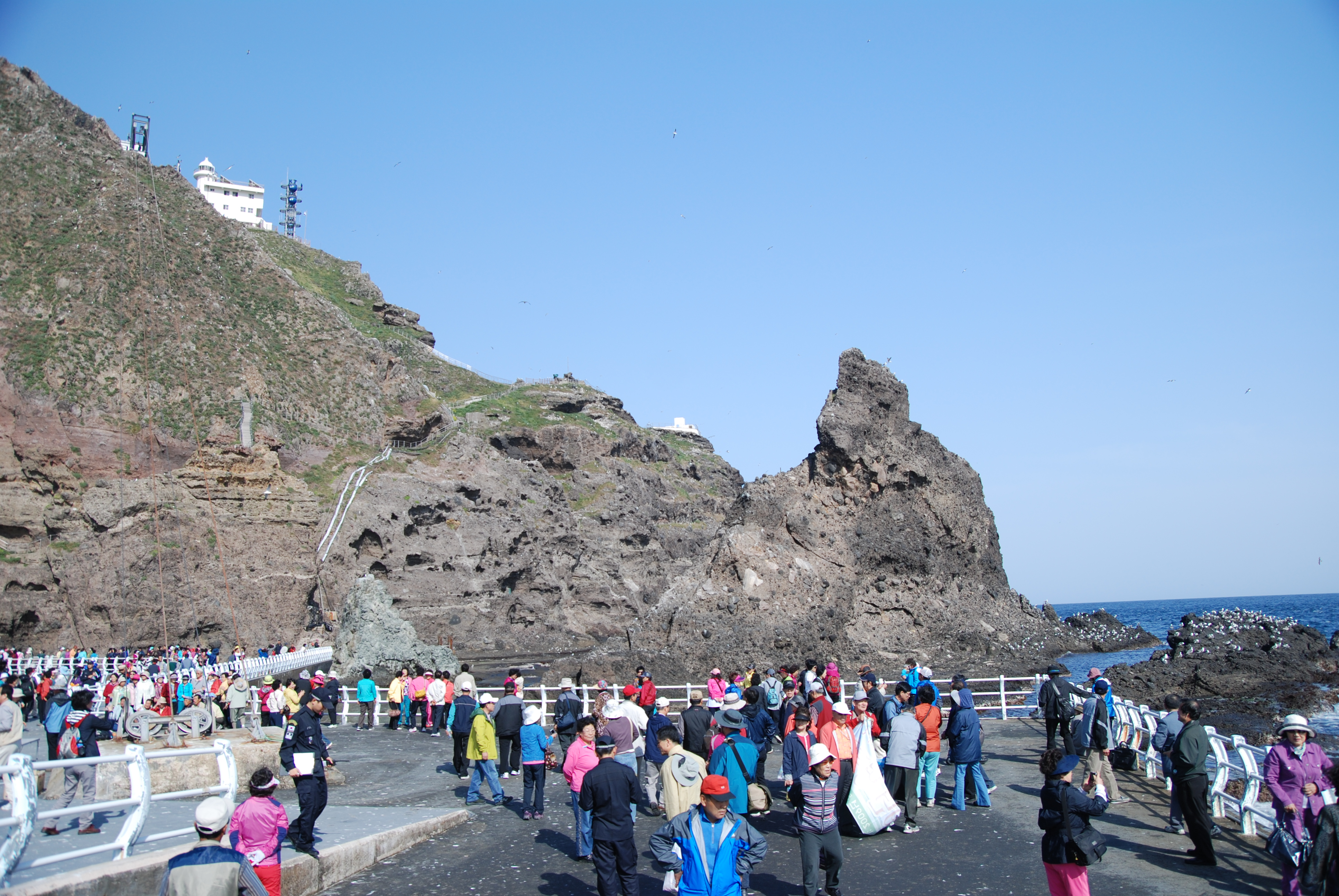 Every summer thousands of Koreans flock to Liancourt Rocks and Ulleungdo Islands.